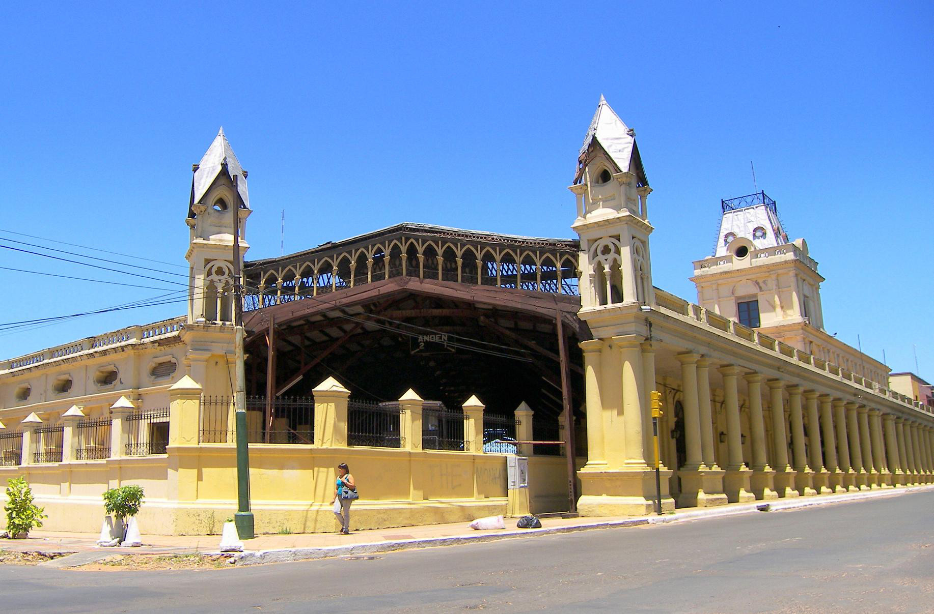 Edificio sede de los andenes del tren del Paraguay